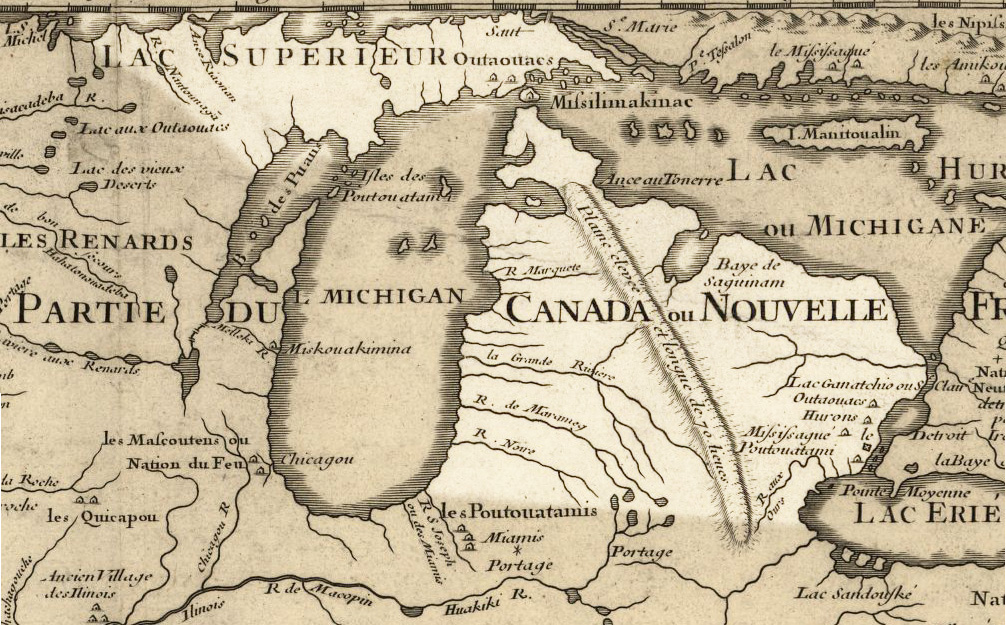 Michigan 1718, approximate modern state area highlighted, from Carte de la Louisiane et du cours du Mississipi by Guillaume de L'Isle. Licensing My contributions cleaning and highlighting are also donated to Public Domain. Bill Whittaker (talk) 20:14, 27 July 2009 (UTC)